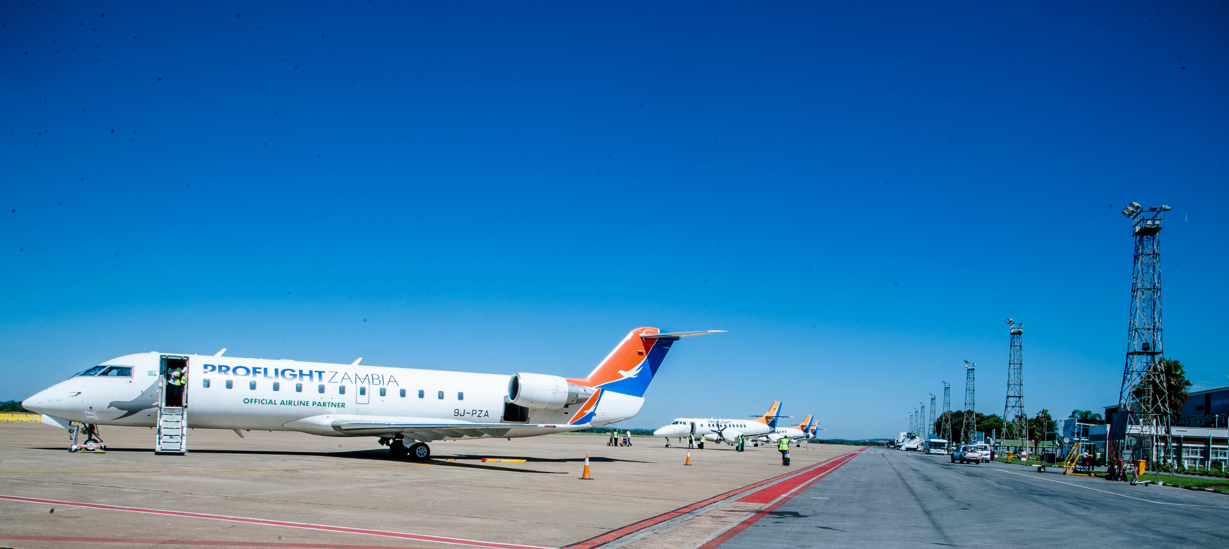 Proflight Zambia's fleet of aircraft at KKIA 2019